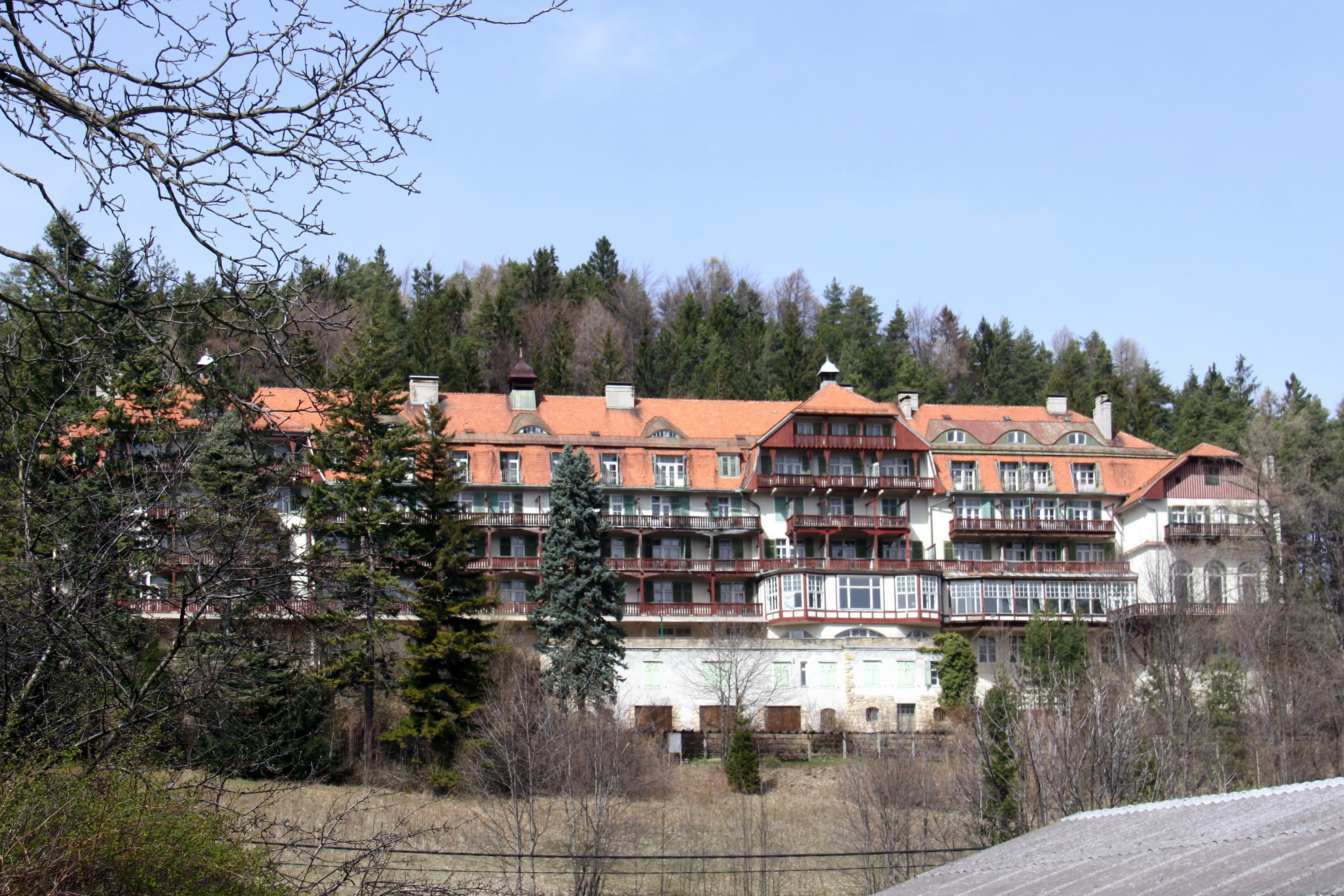 Semmering railway, rebuild track 1 between the stations Breitenstein and Semmering with ballast cleaning and cabling works. – The photo shows the former Kurhaus in Semmering.